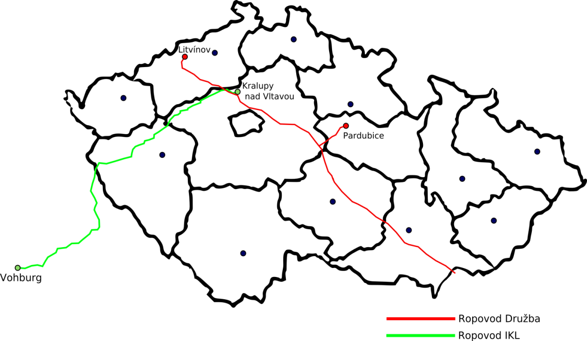 Map of pipelines going to Czech Republic with their end points, where refineries can be found.